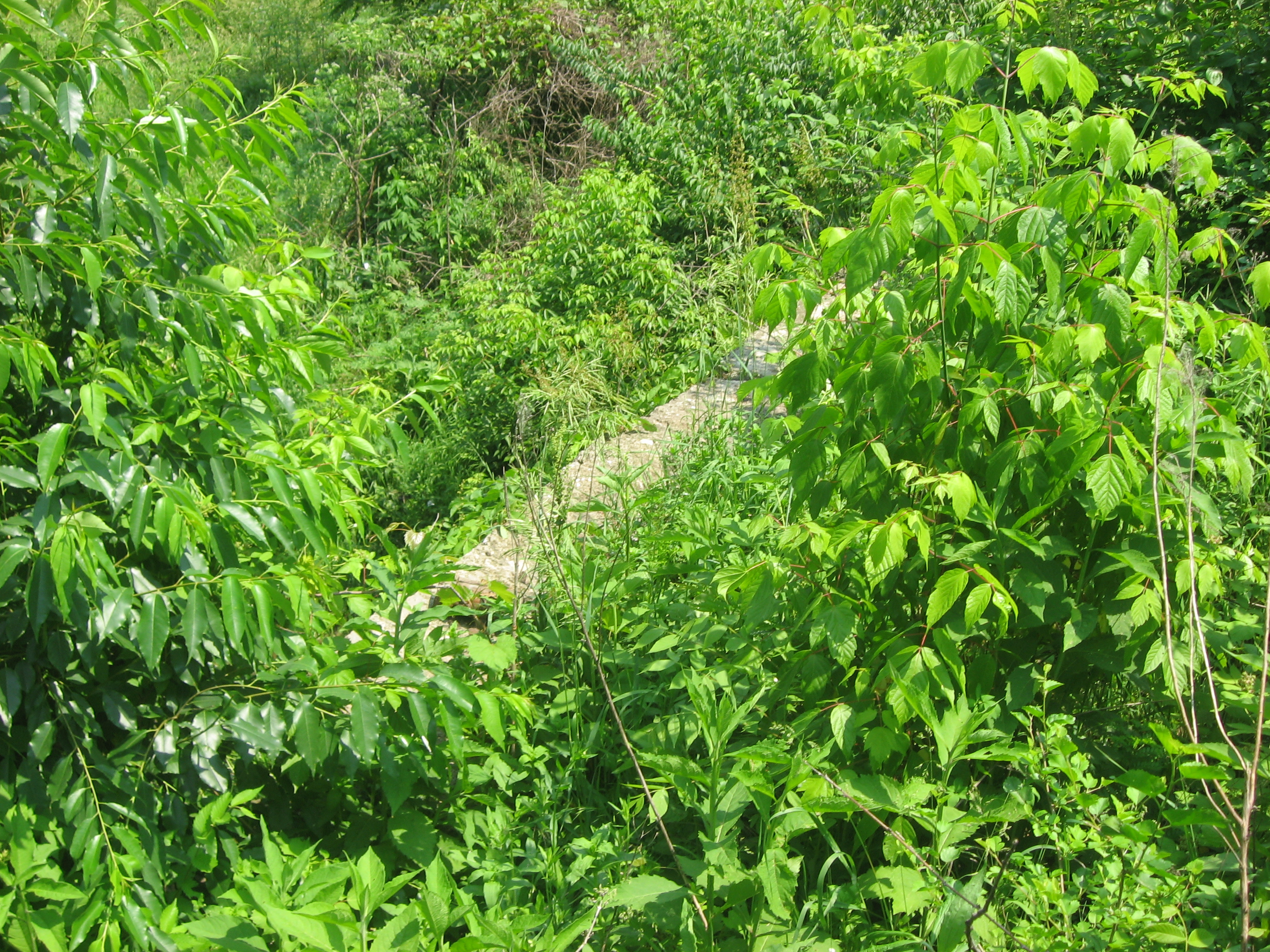 Edge of the Burnett's Creek Arch (the Wabash and Erie Canal Culvert No. 100), which carries Towpath Road over Burnett's Creek northeast of Lockport in Adams Township, Carroll County, Indiana, United States. Built in 1840 to carry the Wabash and Erie Canal over the stream, it is listed on the National Register of Historic Places. A better photograph of the side of the bridge cannot be obtained from the road, and "No Trespassing" signs are prominently placed to obstruct a path leading down to the stream.